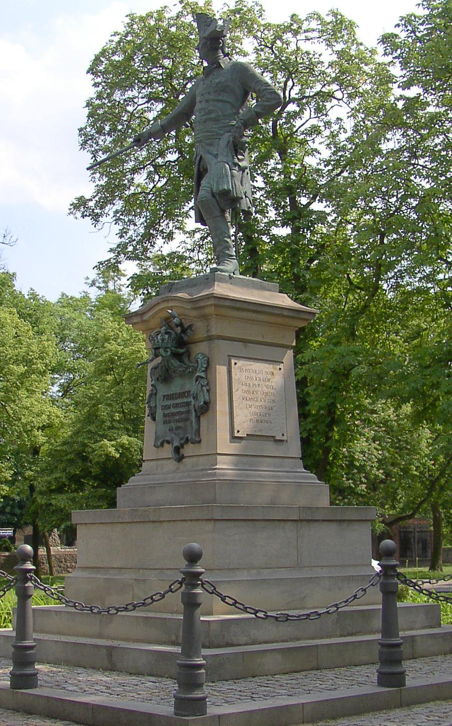 Statue of Frederick II in Neutrebbin in Brandenburg, Germany, a copy of 1994 after the destroyed original by Heinrich Wefing, sculpted in 1904